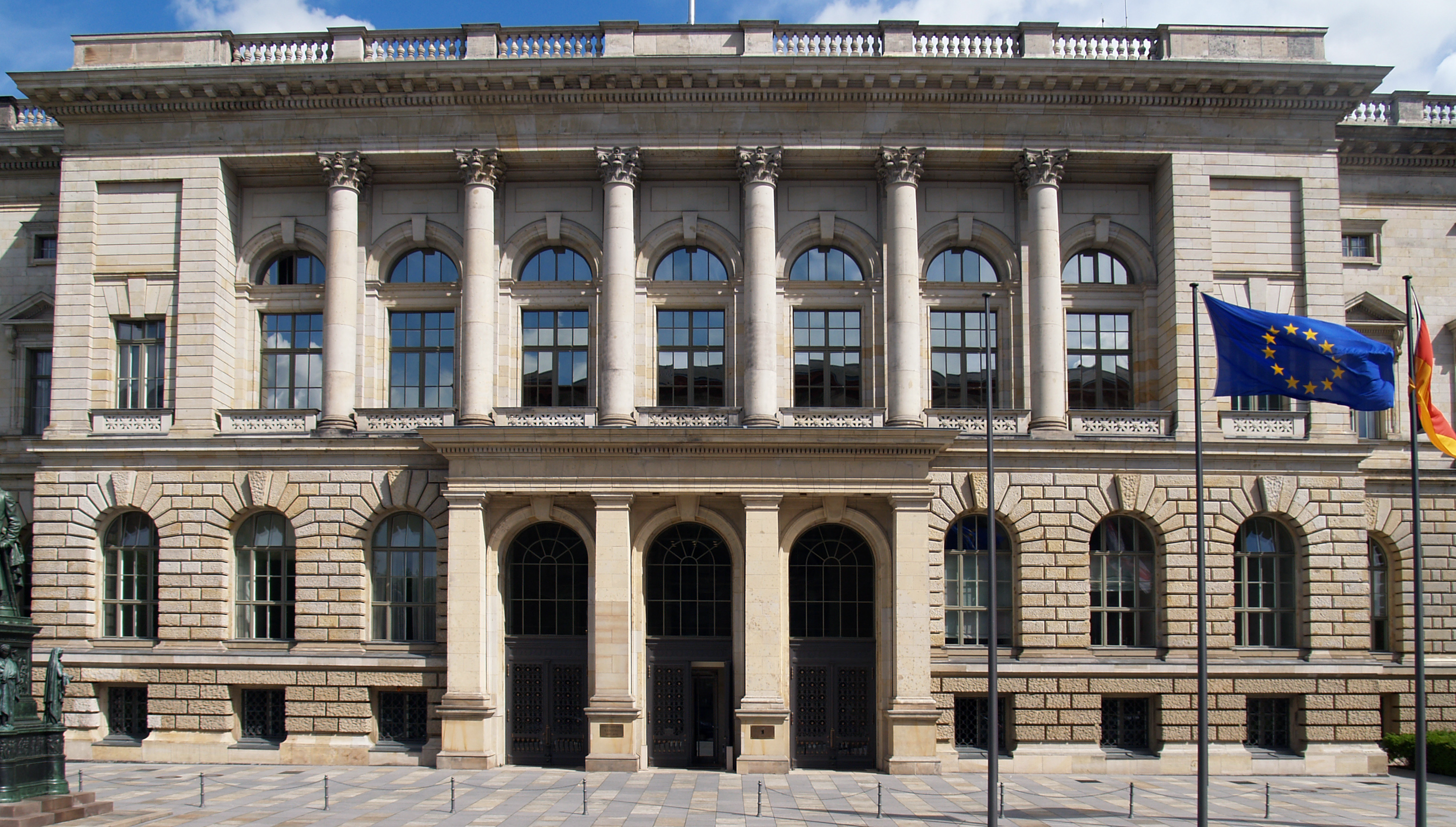 The building of former Preußischer Landtag, today House of Representatives of Berlin, Germany